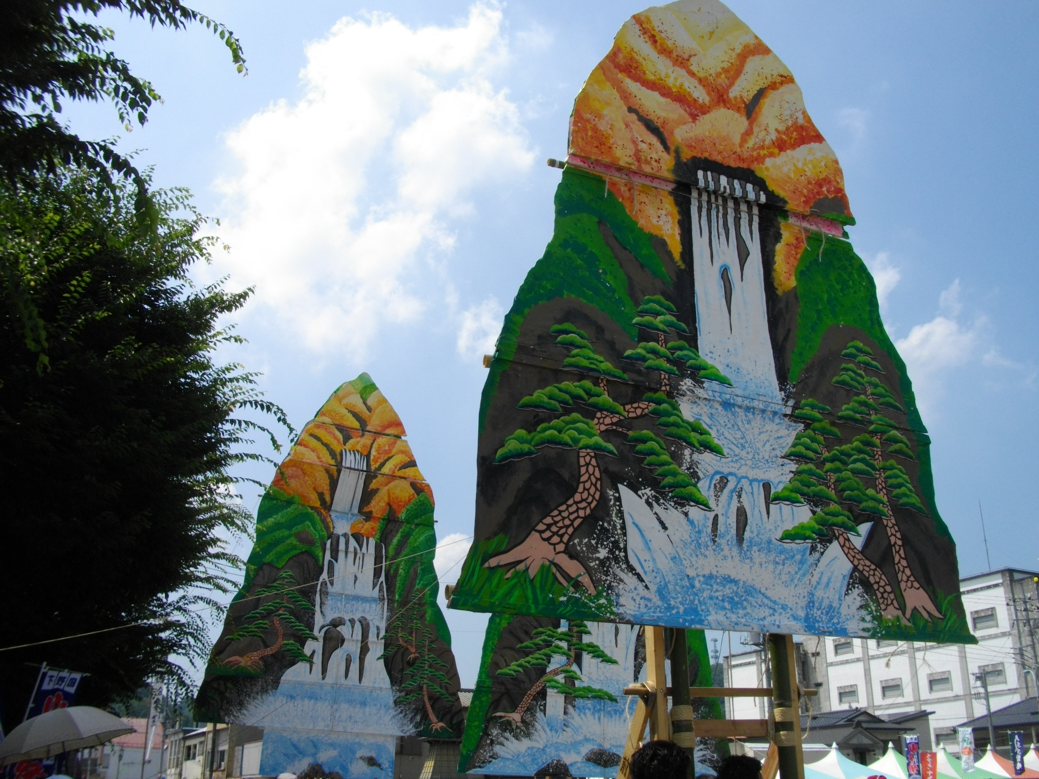 2014 Yamaage Matsuri